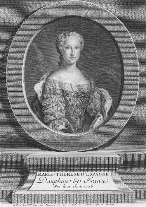 Portrait of Maria Teresa of Spain (1726-1746)